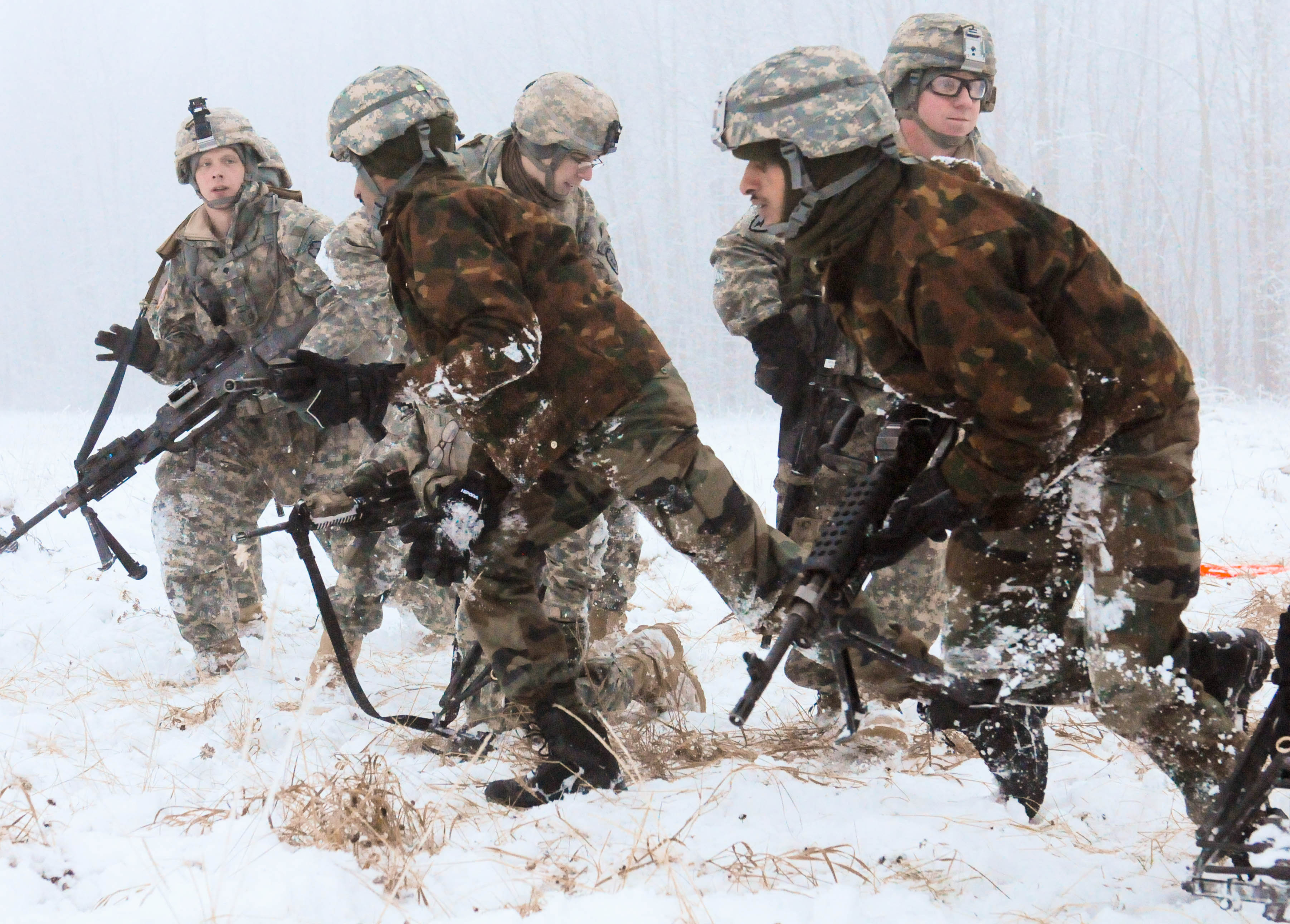 U.S. Army Alaska and Indian army soldiers set up security around a simulated Black Hawk helicopter during a static loading rehearsal. The training was conducted at one of the airborne sustainment training areas Nov. 9 in preparation for missions involved in the field training exercise portion of Yudh Abhyas 2010. United States Army Alaska Date Taken:11.09.2010 Location:JOINT BASE ELMENDORF-RICHARDSON, AK, US Related Photos